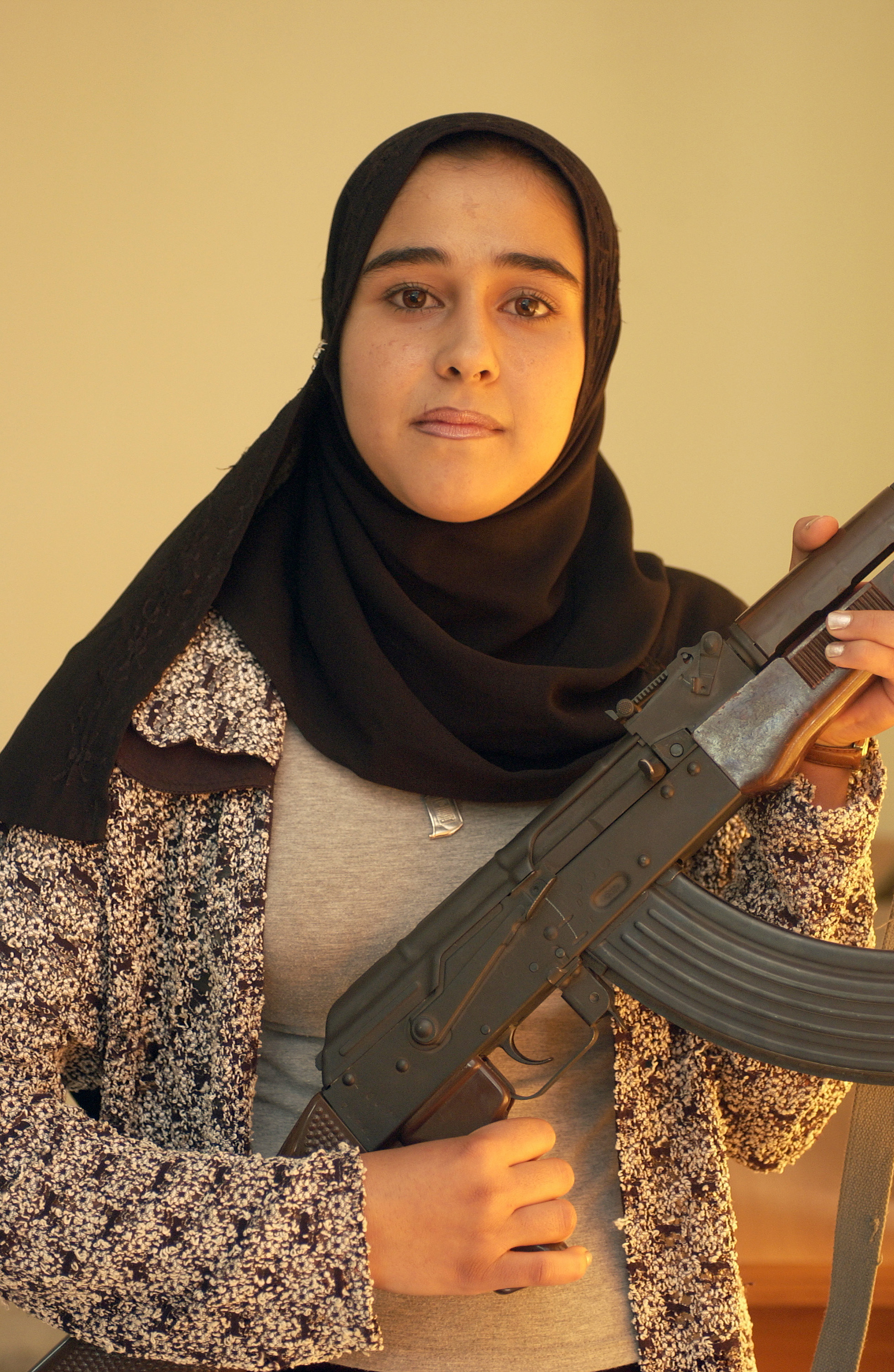 An Iraqi woman holds a east german license produced AKM she will use during her security duties. Twenty-nine Iraqi women became the first female Facilities Protection Service (FPS) guards in Iraq’s Ministry of Water Resources, after completing a three-day training course taught by Iraqi FPS officers. Their training included sessions on ethics, standards of professionalism, search and seizure, and weapons familiarization. The women will serve alongside male FPS guards in guarding buildings, dams, and other ministry facilities.